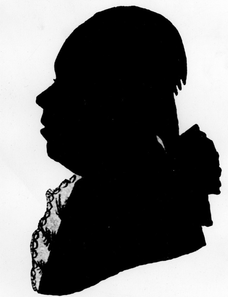 Russian mathematician, academician S. K. Kotel’nikov